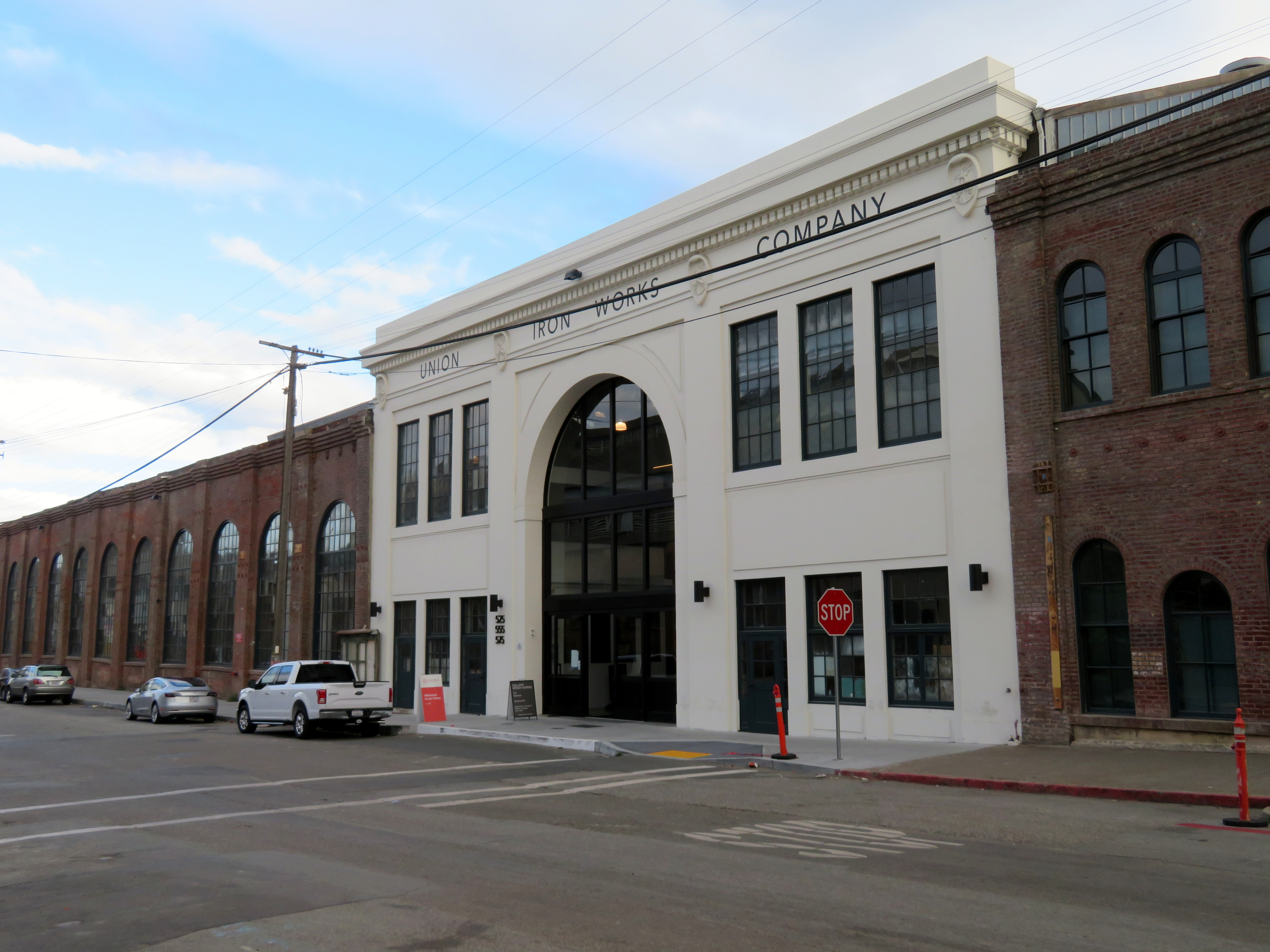 The formal entrance to Union Iron Works building 113 on Pier 70 in September 2018